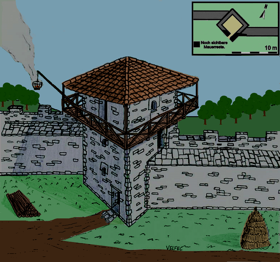 Hadrian's Wall: reconstruction of the Roman signal tower on Pike Hill (2nd century).